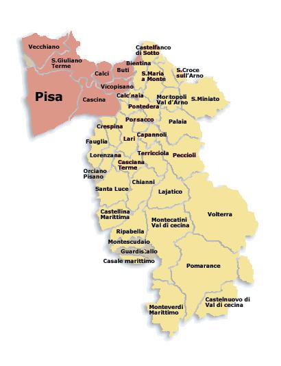 provicia di Pisa